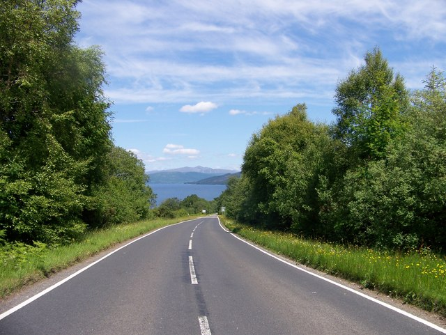 A886 heading towards Loch Fyne. This is the junction 192779 seen from the south